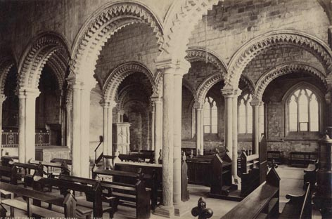 The Gallilee Chapel at Durham Cathedral c.1890 by James Valentine.